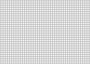 image created by jean-pierre sagaire